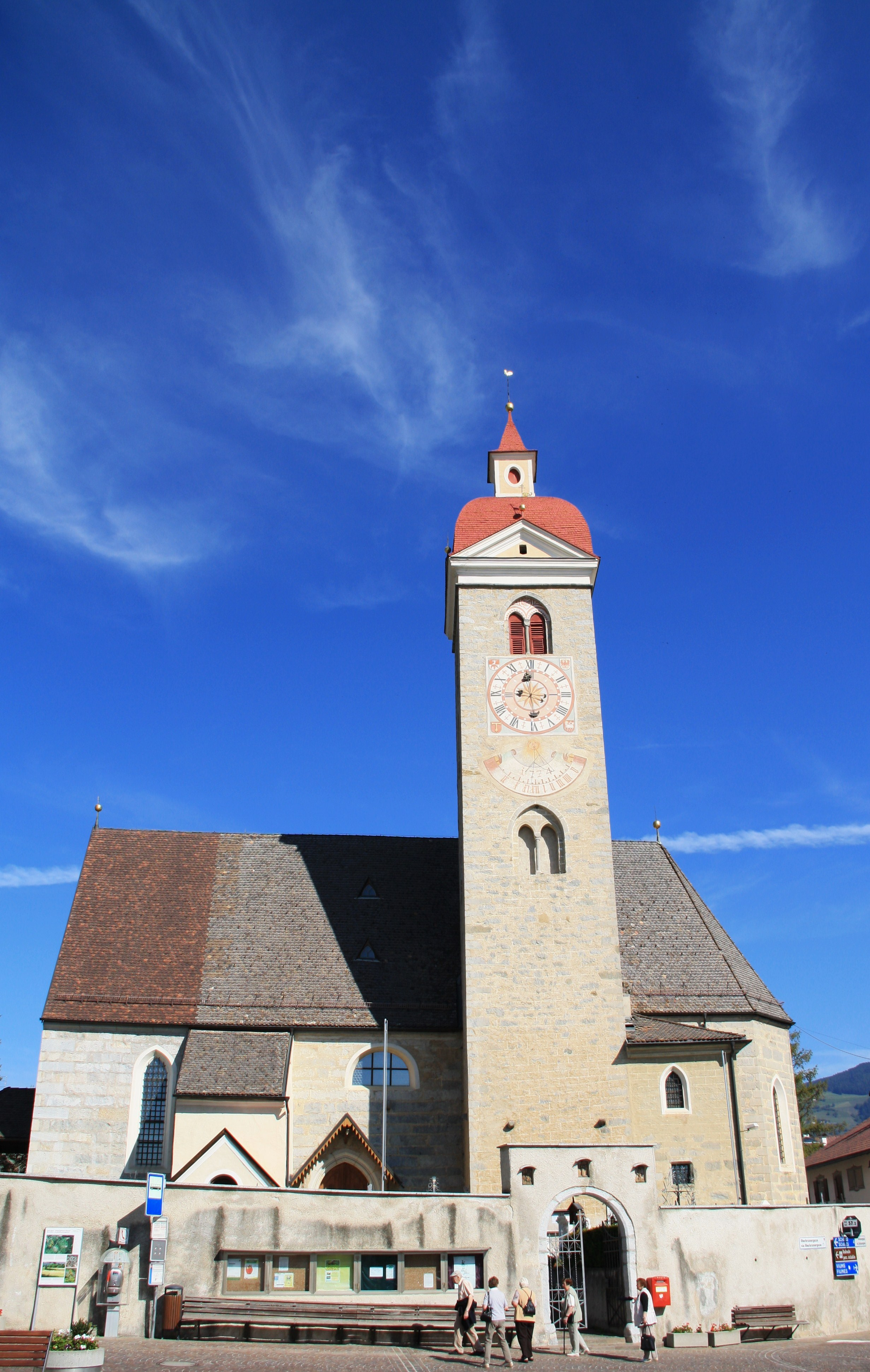 Italy, South Tirol, Natz-Schabs, Schlossergasse, Pfarrkirche Hll. Aposteln Philippus und Jakobus. The first mention of the parish church in Natz dates back to 1157 but the church was consecrated in 1208 by the prince-bishop Konrad von Rodank in honour of Saint Philip and Saint Walpurga. The present church was completed in 1484 in Late Gothic and consecrated once again to the Saints Apostles Philip and James. The bell tower was built in 1400 with granite blocks; in 1635 was damaged by fire and in 1686 was covered with a dome in Baroque style. The high altar is work by Peter Lapper of Natz made in 1855. In the throne of the high altar are the statue of the Madonna, Saint Agnes and Saint Ursula which are Gothc works of 1499 attributed to Michael Parcher; the statues of St. Philip and St. James are by F. X. Renn of Imst made in 1857. The painting of the right lateral altar represent the Baptism of Jesus and the left side altar correspond to the Holy Family, both works are by Michael Lackner of Bruneck. The first organ was installed on May 1st, 1909; the present one has been built by Orgelbau Pirchner of Steinach am Brenner and has 16 registers and 1250 pipes and was inaugurated on May 1st, 1990.